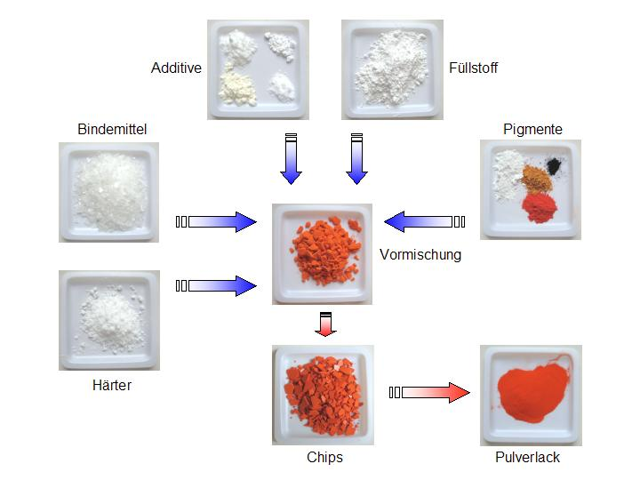 The picture shows the single powder coating components and how the development to the final powder coating.